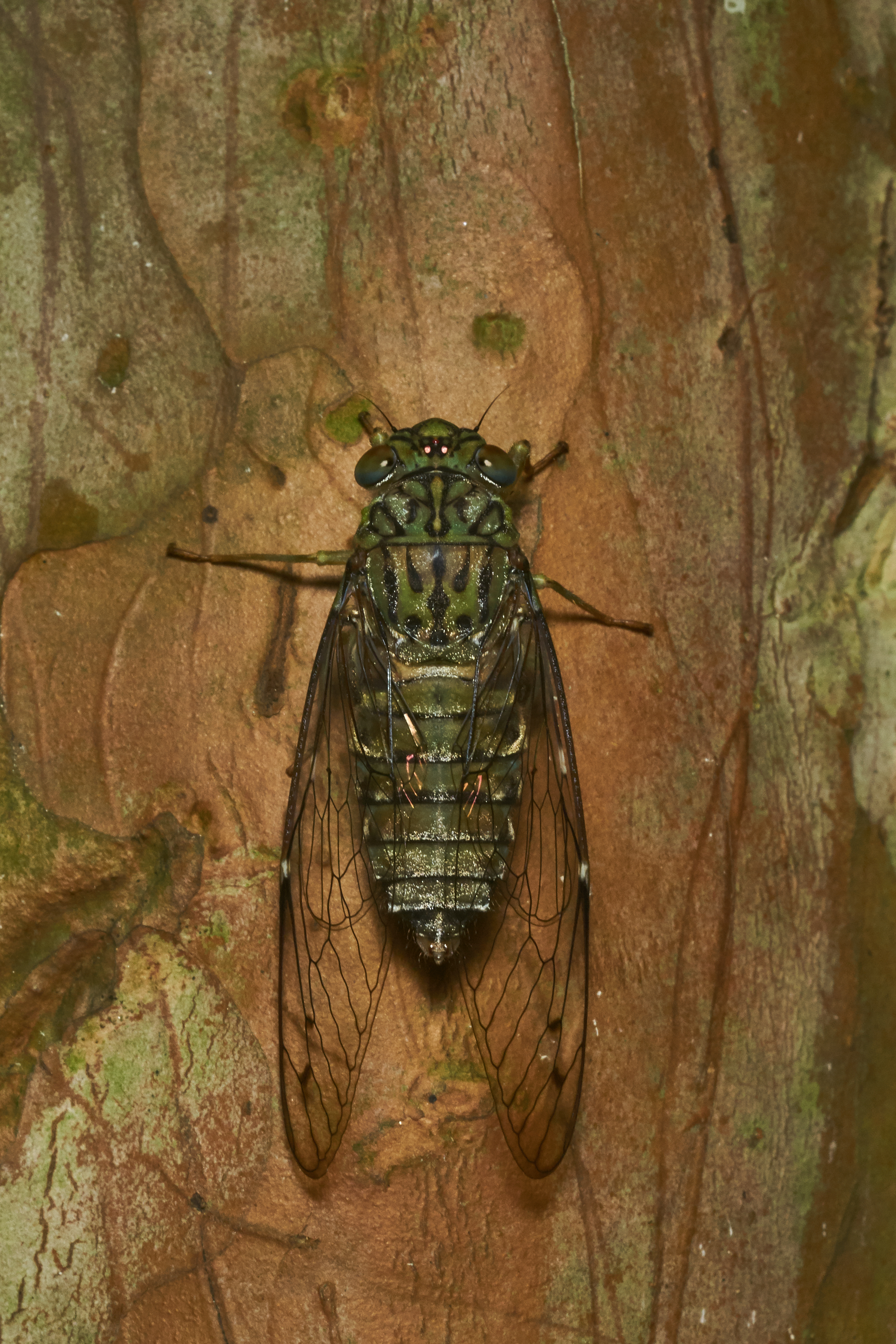 Purana is a genus of cicada from Southeast Asia. This is Purana tigrina. (ID: Kiran Marathe and Sankararaman H)